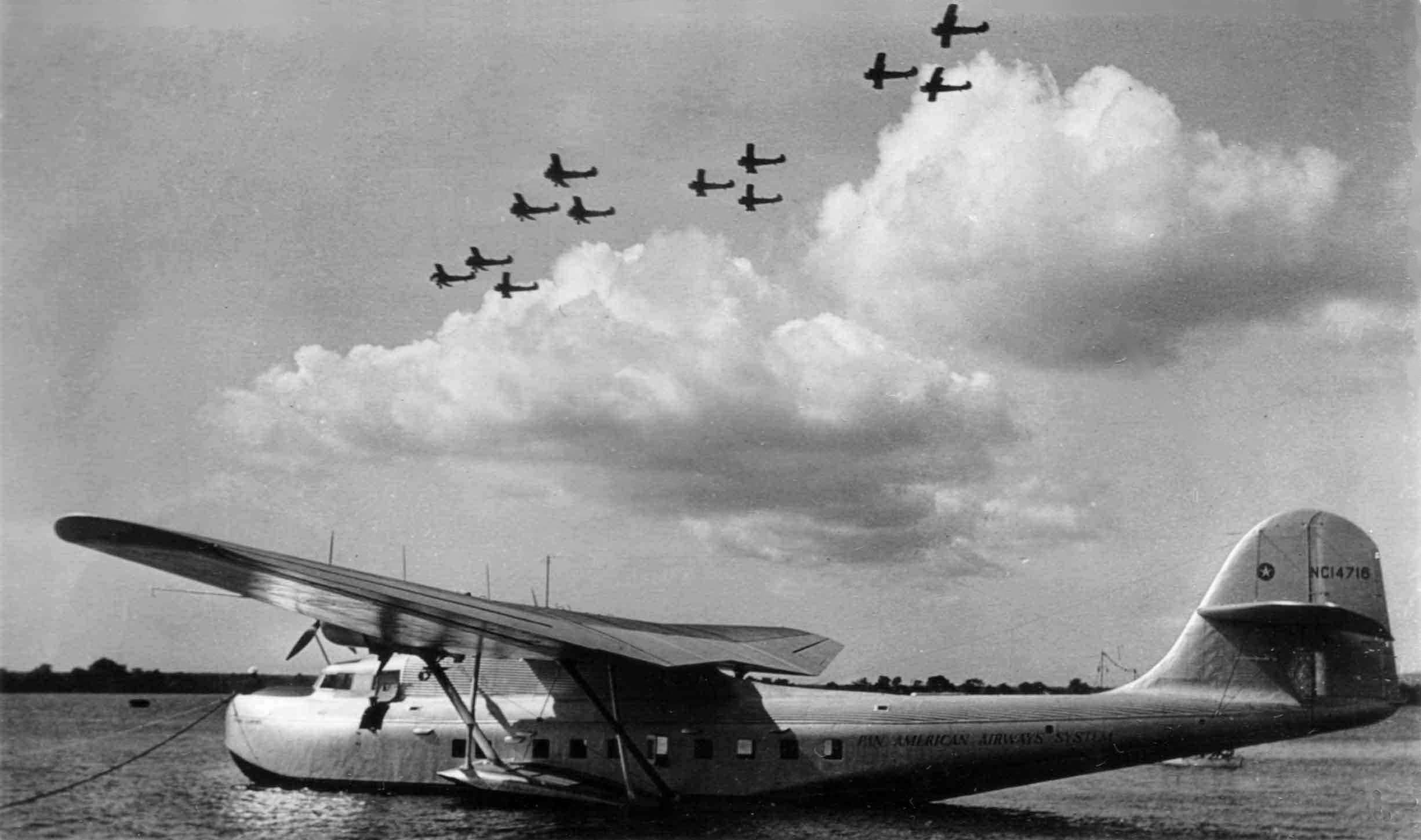 The Pan American Airways Martin M-130 China Clipper (civil registration NC14716) at Pearl Harbor, Hawaii, in the 1930s. This aircraft remained in Pan Am service until 8 January 1945 when it was destroyed in a crash in Port of Spain, Trinidad and Tobago, reported as hitting a blackened out boat. 16 passengers and 9 crew members died in that crash. Note the U.S. Army Air Corps bombers in the background.